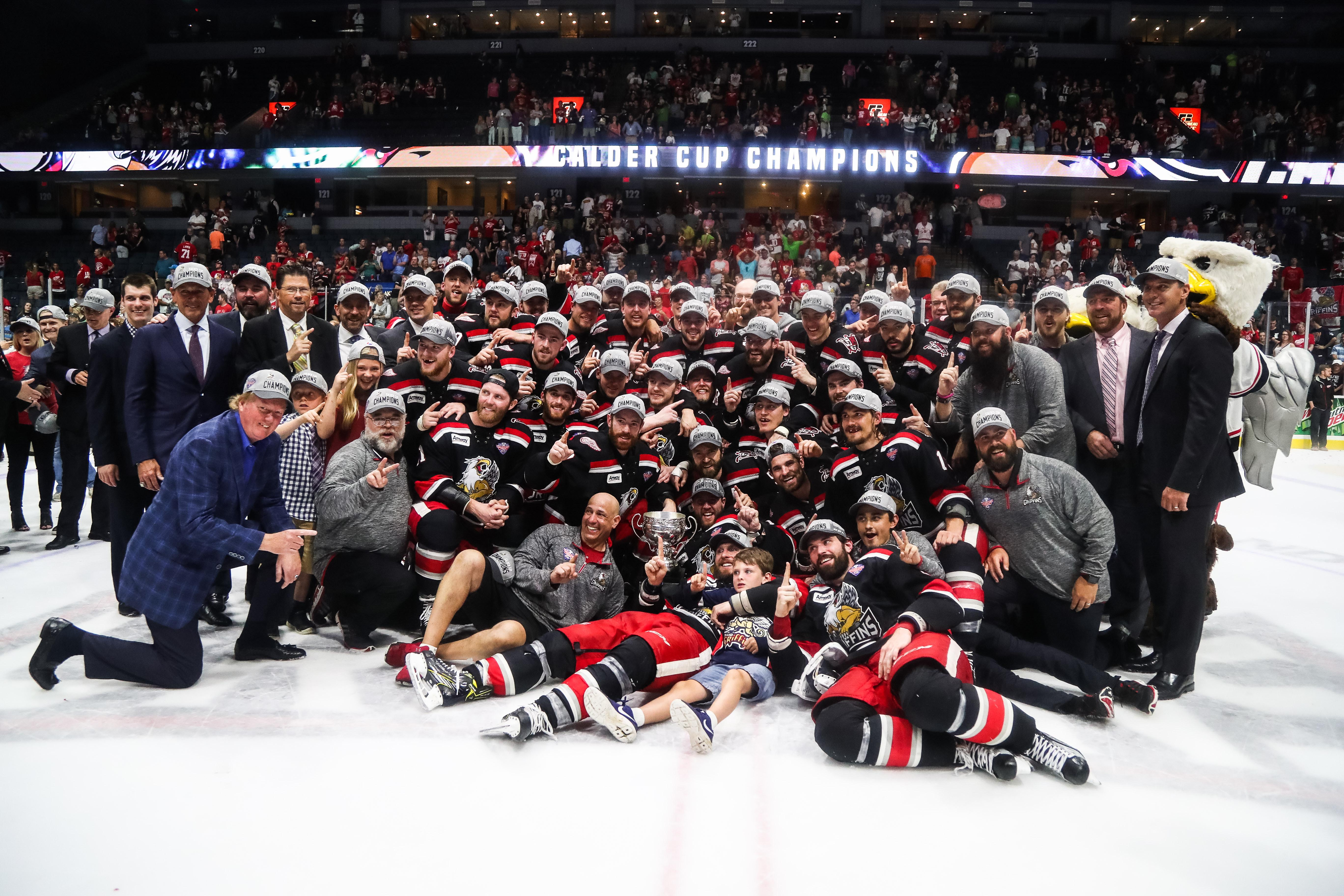 Photo: Sam Iannamico